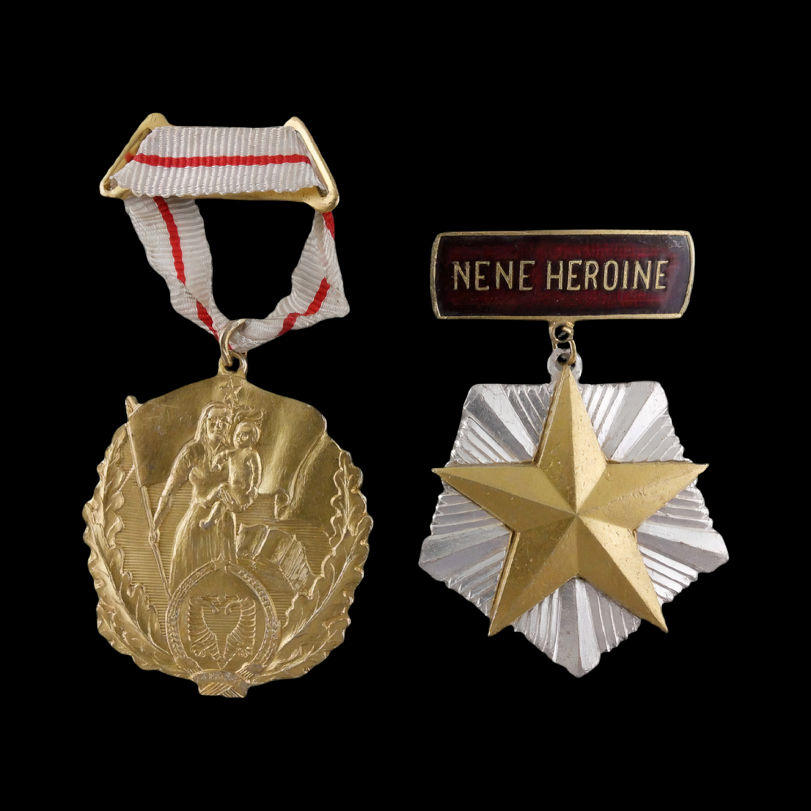 Two Albanian Motherhood Medals; Motherhood Glory, 1st Class (gold-coloured wash on metal, 40.3 mm x 43.5 mm, original ribbon with pinback); and Mother Heroine Medal (two-piece construction, silvered and gilt bronze, 40.5 mm x 42.5 mm, suspended from an enamelled pinback hanger inscribed "NENE HEROINE").